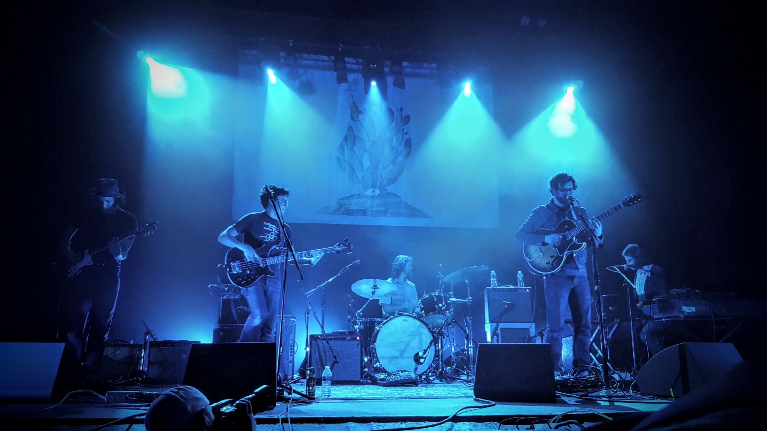 White Denim performing at Thalia Hall, Chicago while on their Stiff tour in 2016